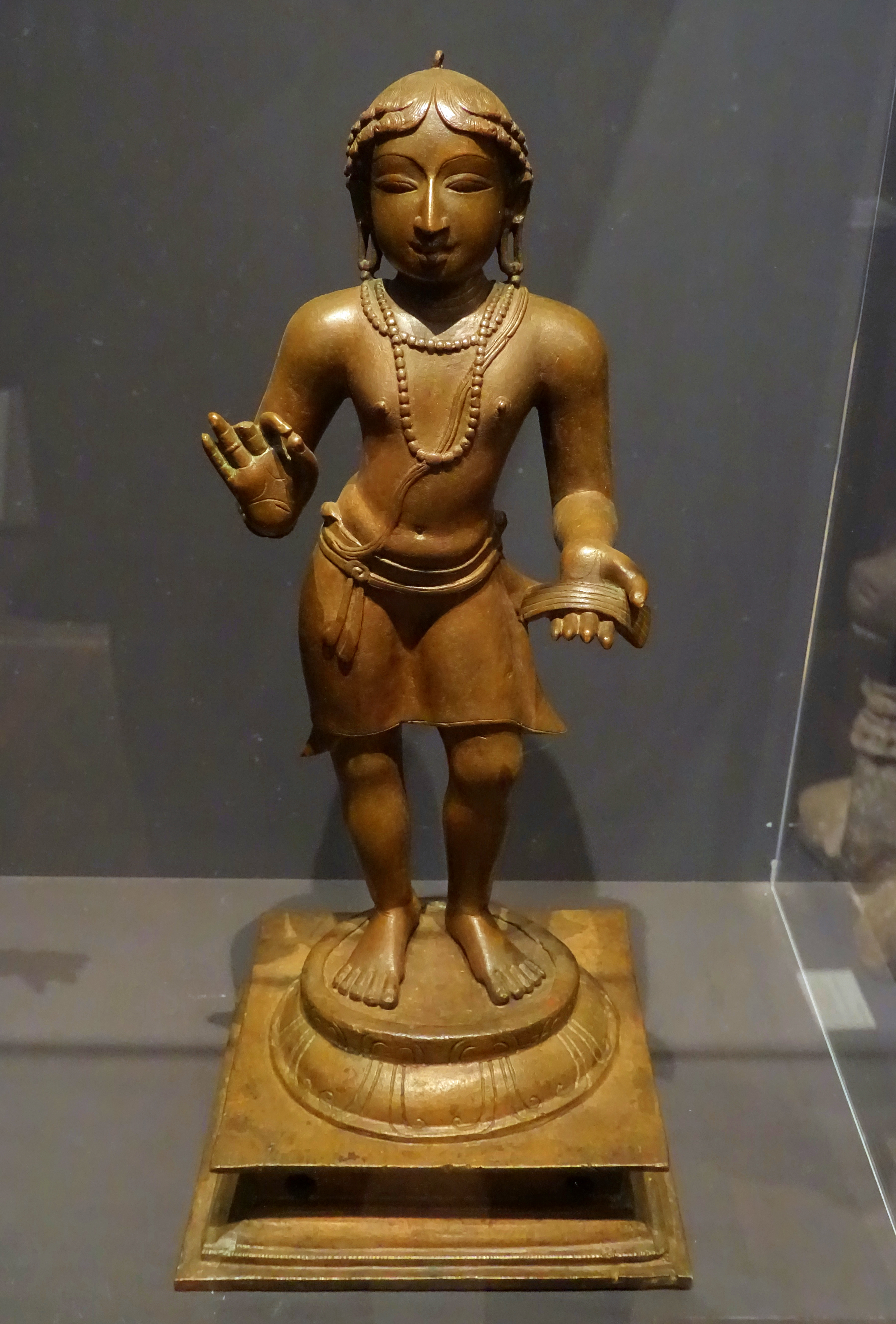 Exhibit in the Linden-Museum - Stuttgart, Germany.